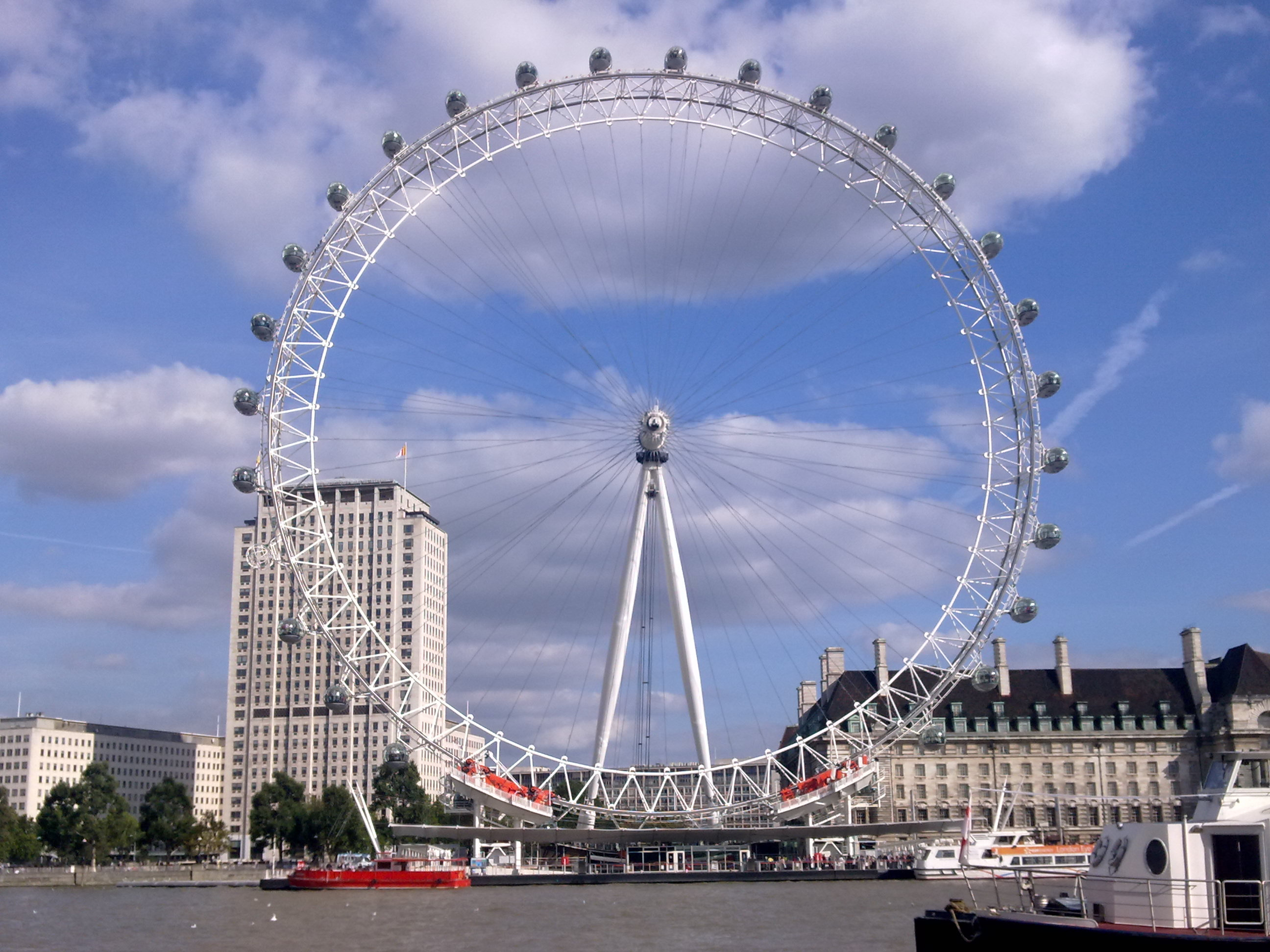 London Eye (2011)